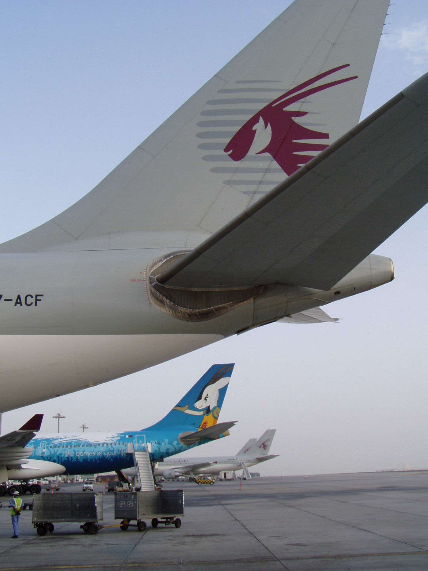 Qatar Airways, Airbus A330